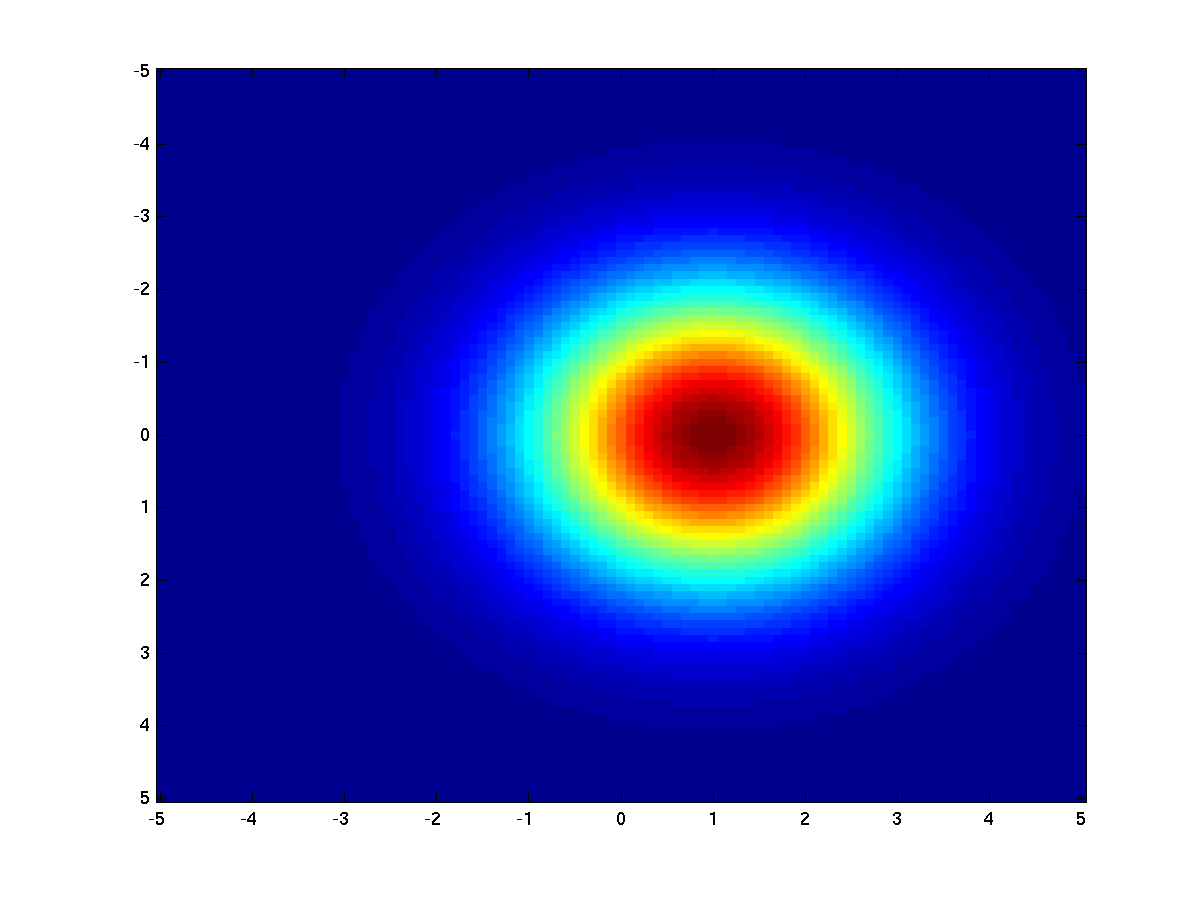 Multivariate independent stable with alpha = 2 (multivariate spherical Gaussian)